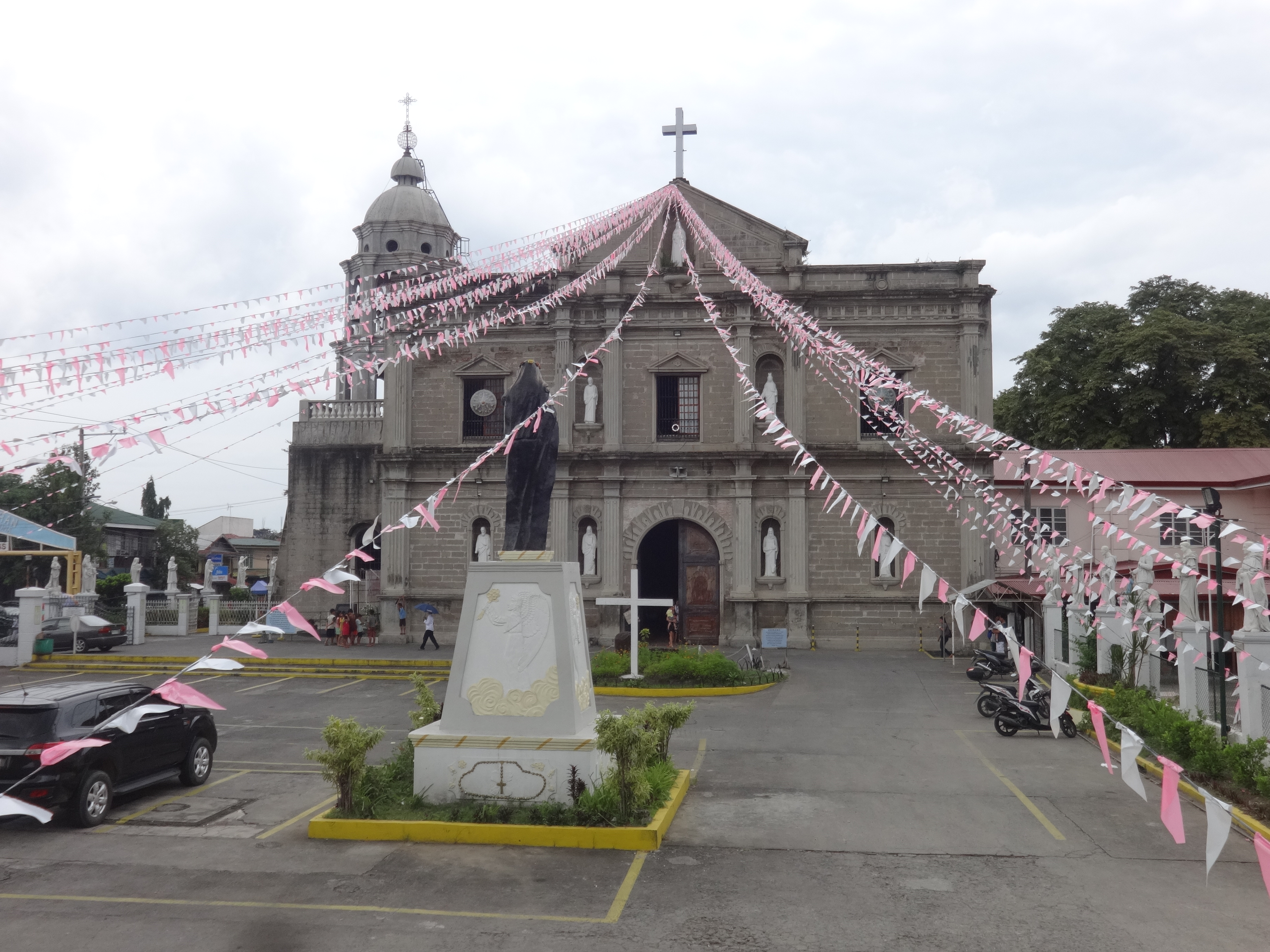 Santa Rosa De Lima Parish at F. Gomez, City of Santa Rosa, Laguna